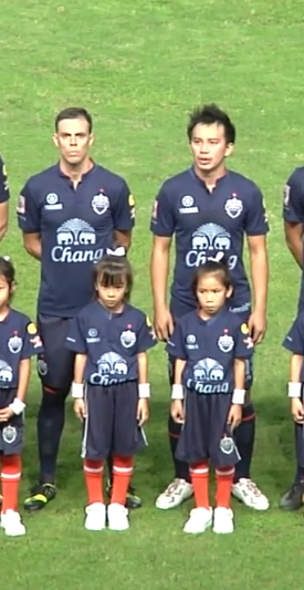 Carmelo González (left) with Jirawat Makarom (right) before game Thai Premier League Buriram United - Chonburi F C